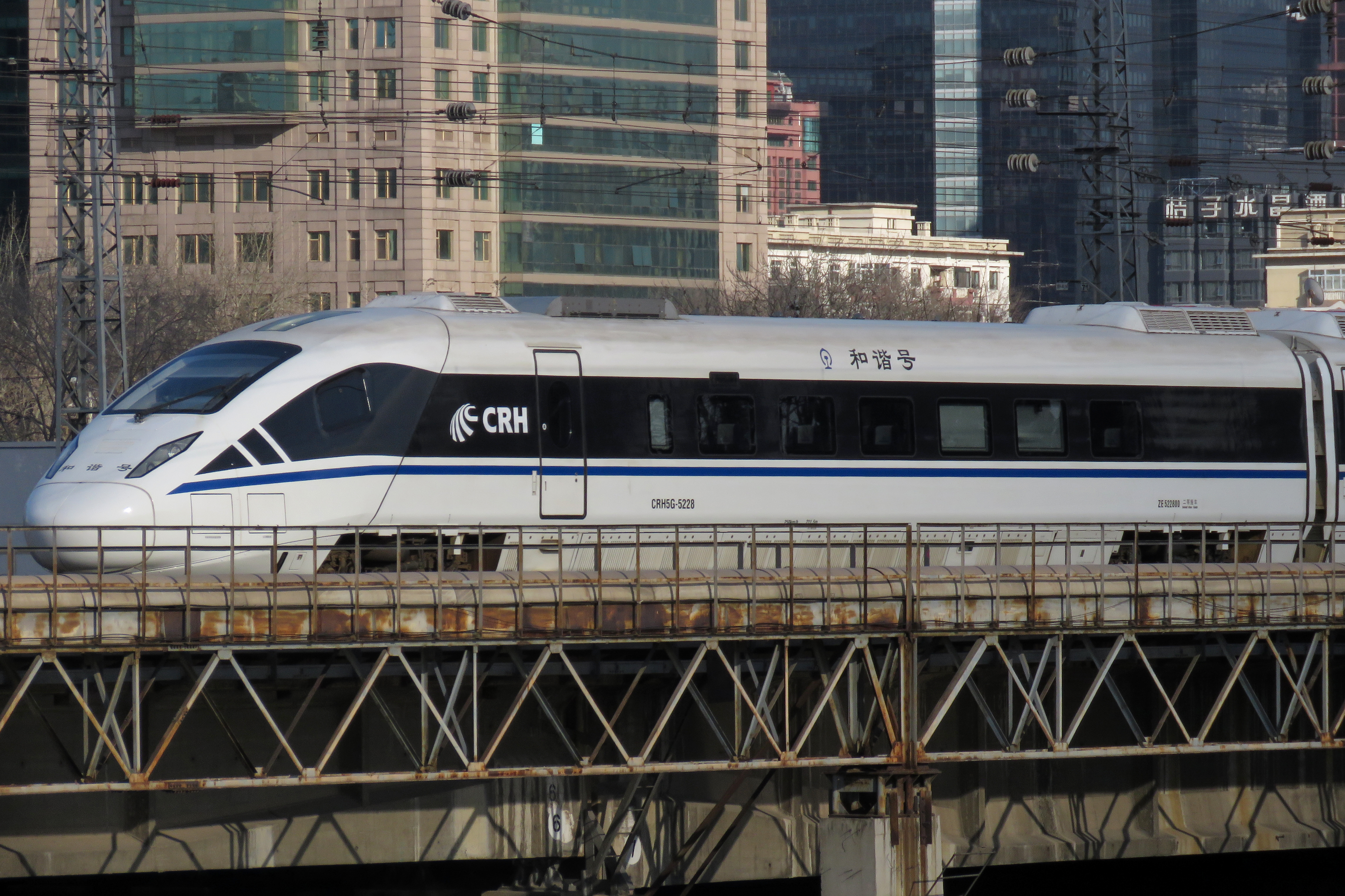 D2 from Shenyang, having been switched to new CRH5Gs recently. This fellow isn't like a donkey at all... CRH3A has a similar face.